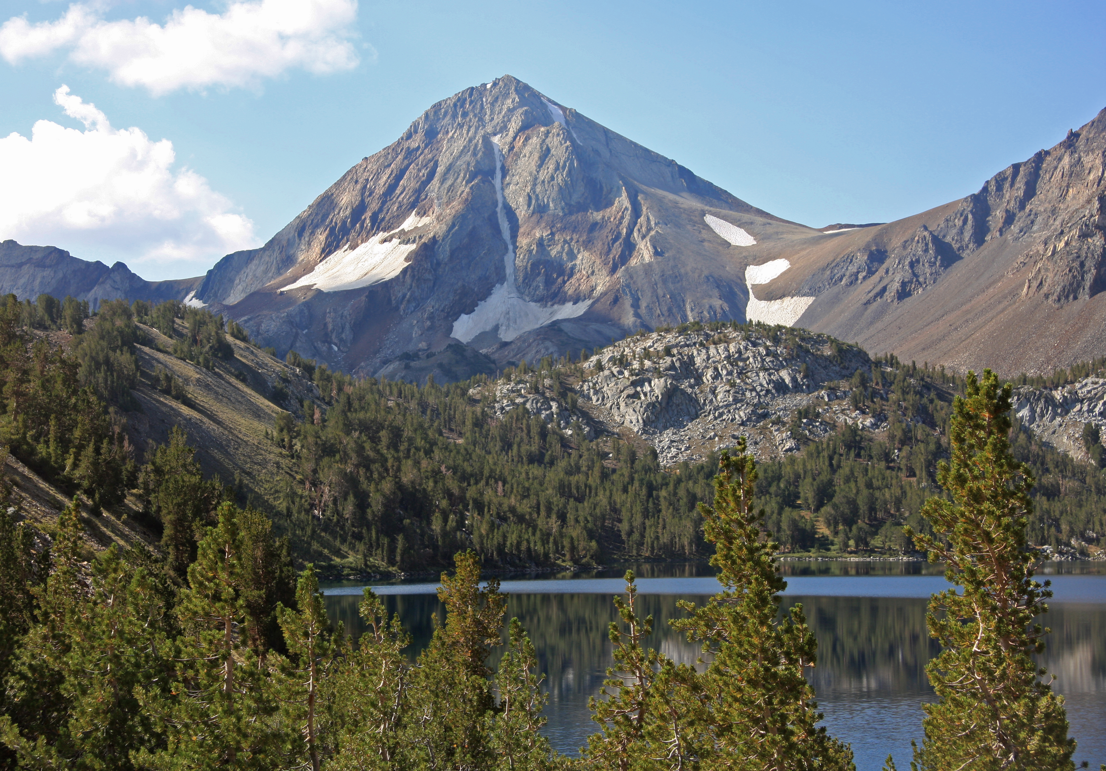 Red Slate Mountain, looking south from Lake Dorothy at 3,145 m (10,318 ft). John Muir Wilderness, Sierra Nevada, California USA.